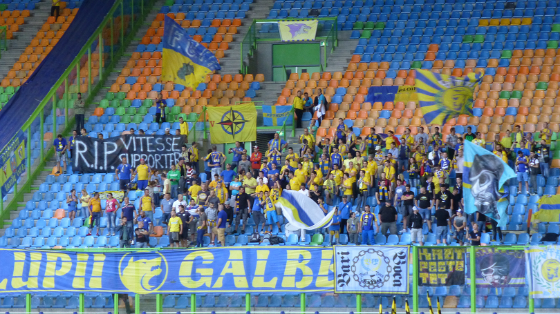 Supporters of Petrolul Ploiesti in the outbox in Gelredome shortly before the Europa League match Vitesse vs. Petrolul Ploiesti.